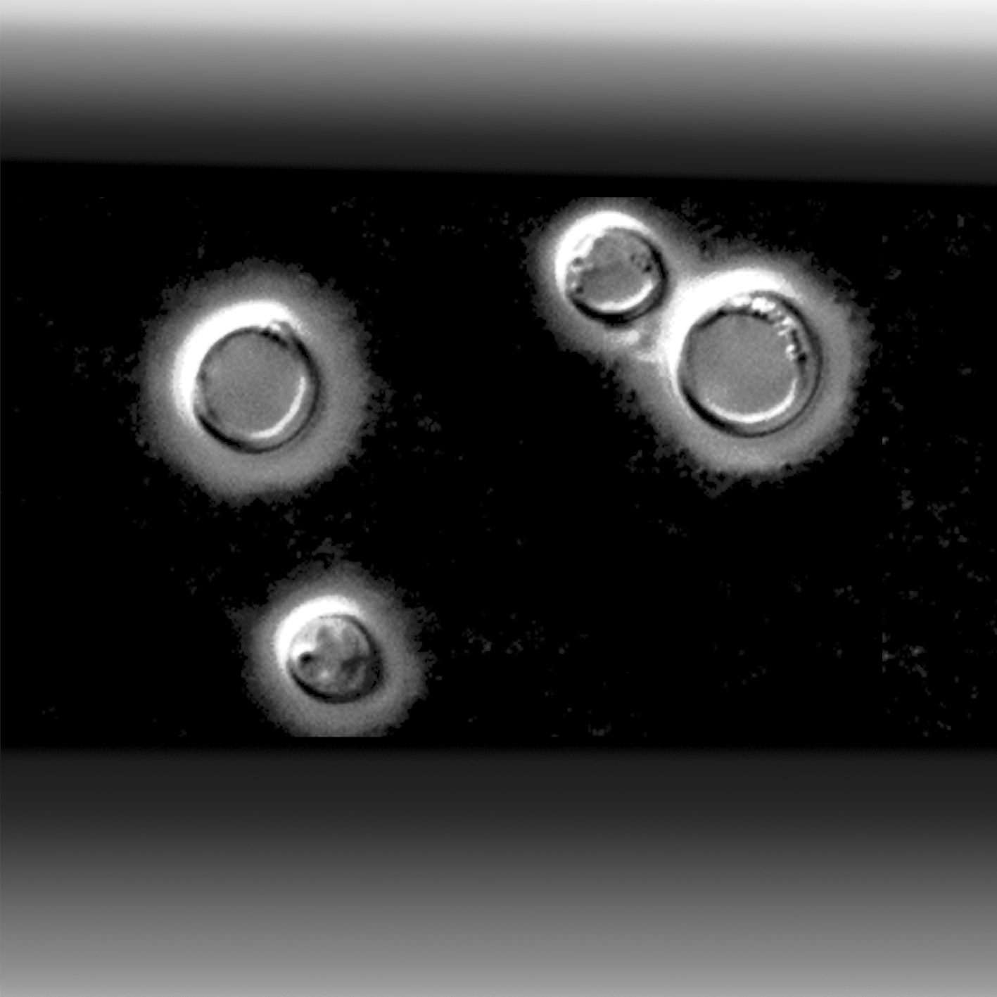 To establish virulent infection, C. neoformans must be able to grow at 37 °C, deposit melanin in the cell wall, and produce a polysaccharide capsule (displayed in the image).